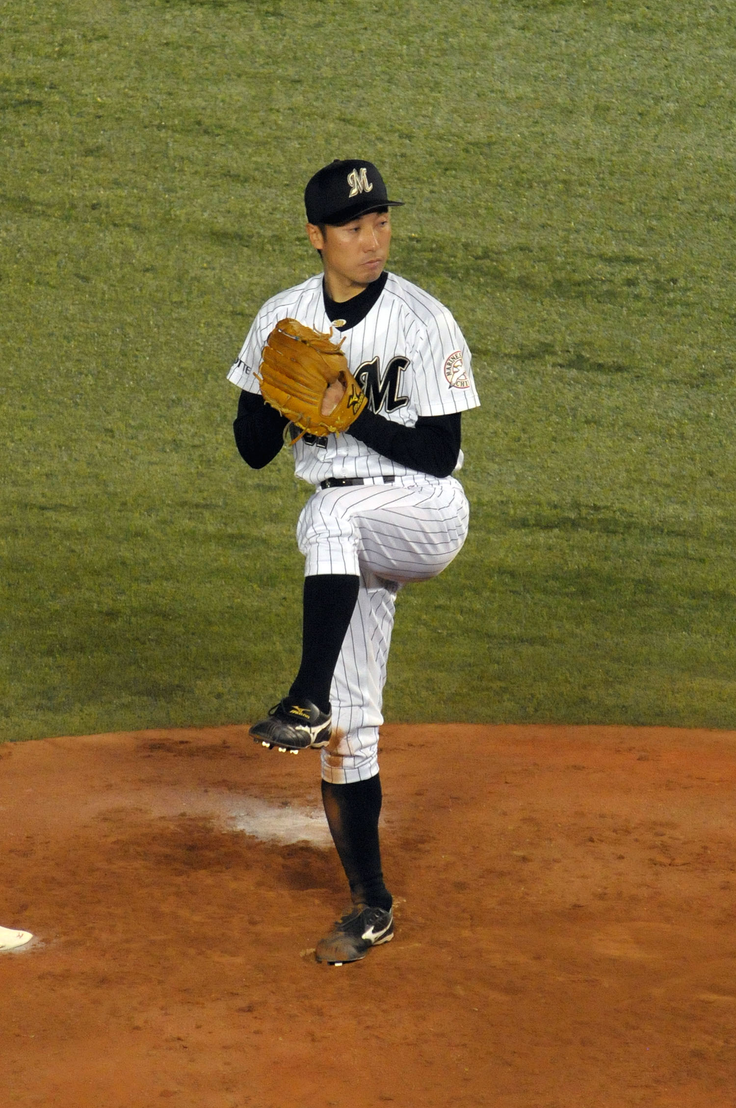 Shunsuke Watanabe, pitcher of the Chiba Lotte Marines, at Chiba Marine Stadium.